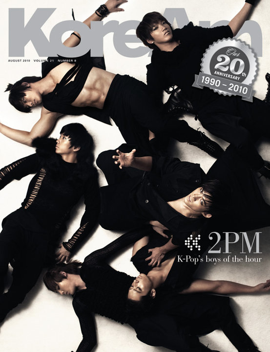 Magazine cover of KoreAm from August 2010; 2PM